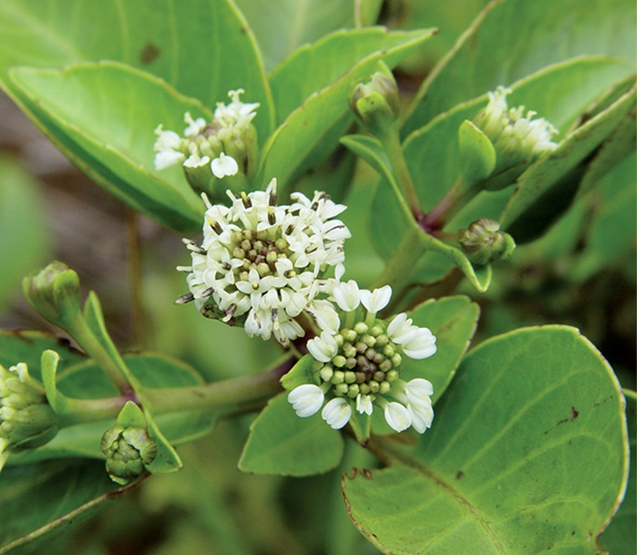 Oparanthus hivaoanus